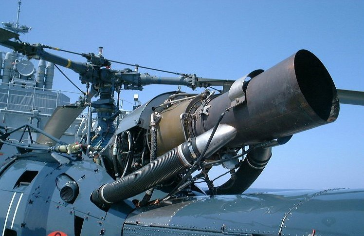 Close-up of the turbine of an Alouette III